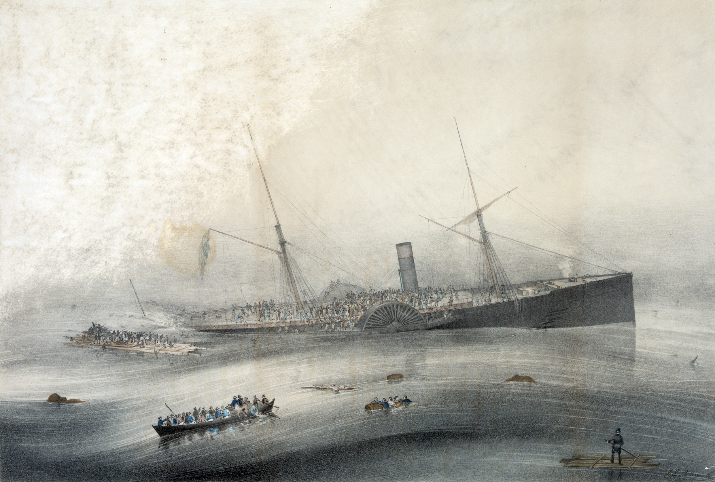 Original caption: "Wreck of the U.S.M. Steam Ship 'Arctic'. Off Cape Race Wednesday September 27th 1854. On her homeward voyage from Liverpool, during a dense fog, she came in collision with the French iron propeller 'VESTA,' and was so badly injured that in about 5 hours she sunk stern foremost by which terrible calamity nearly 300 persons are supposed to have perished."